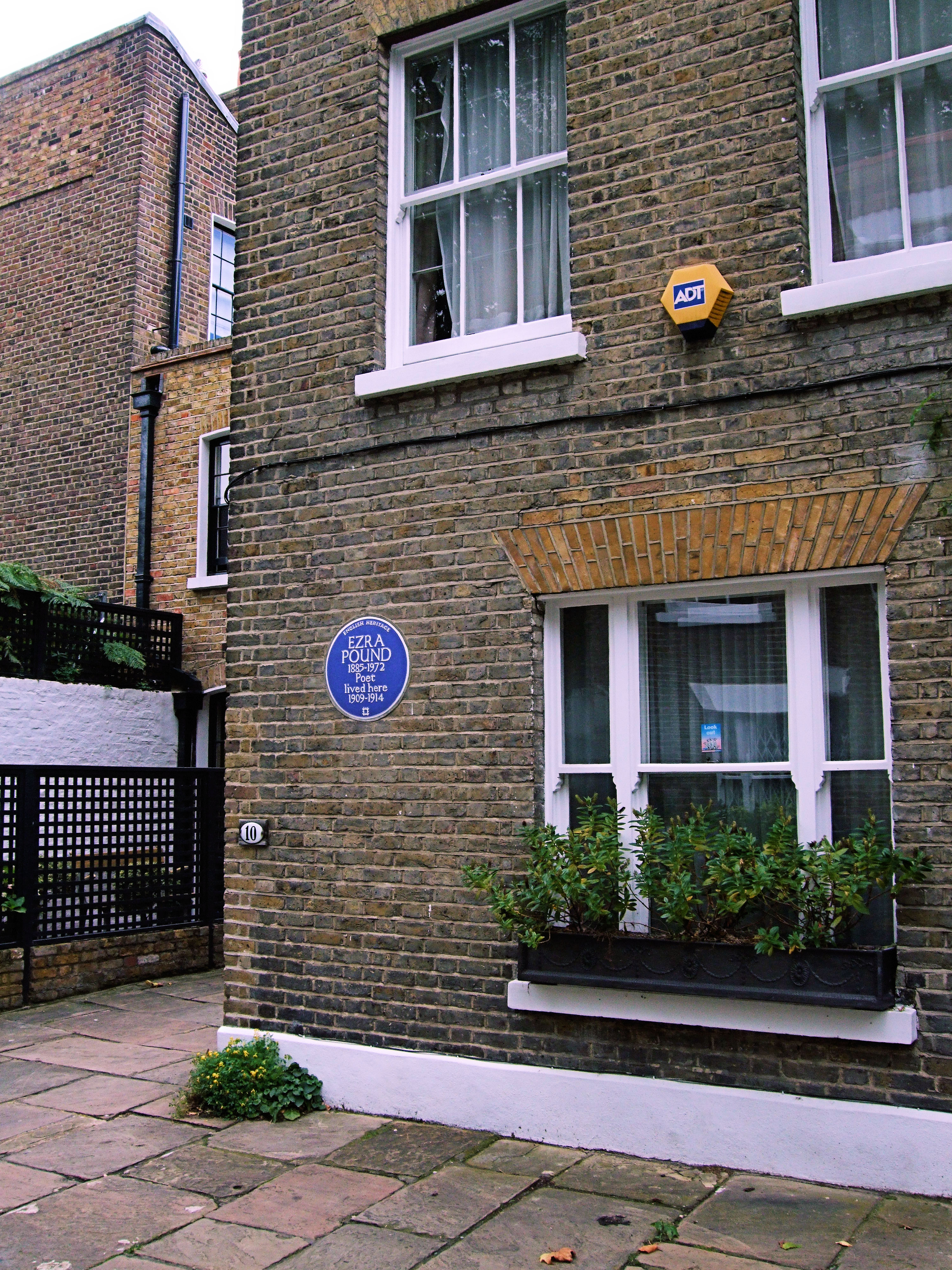 Ezra Pound's home in London, with the Blue Plaque